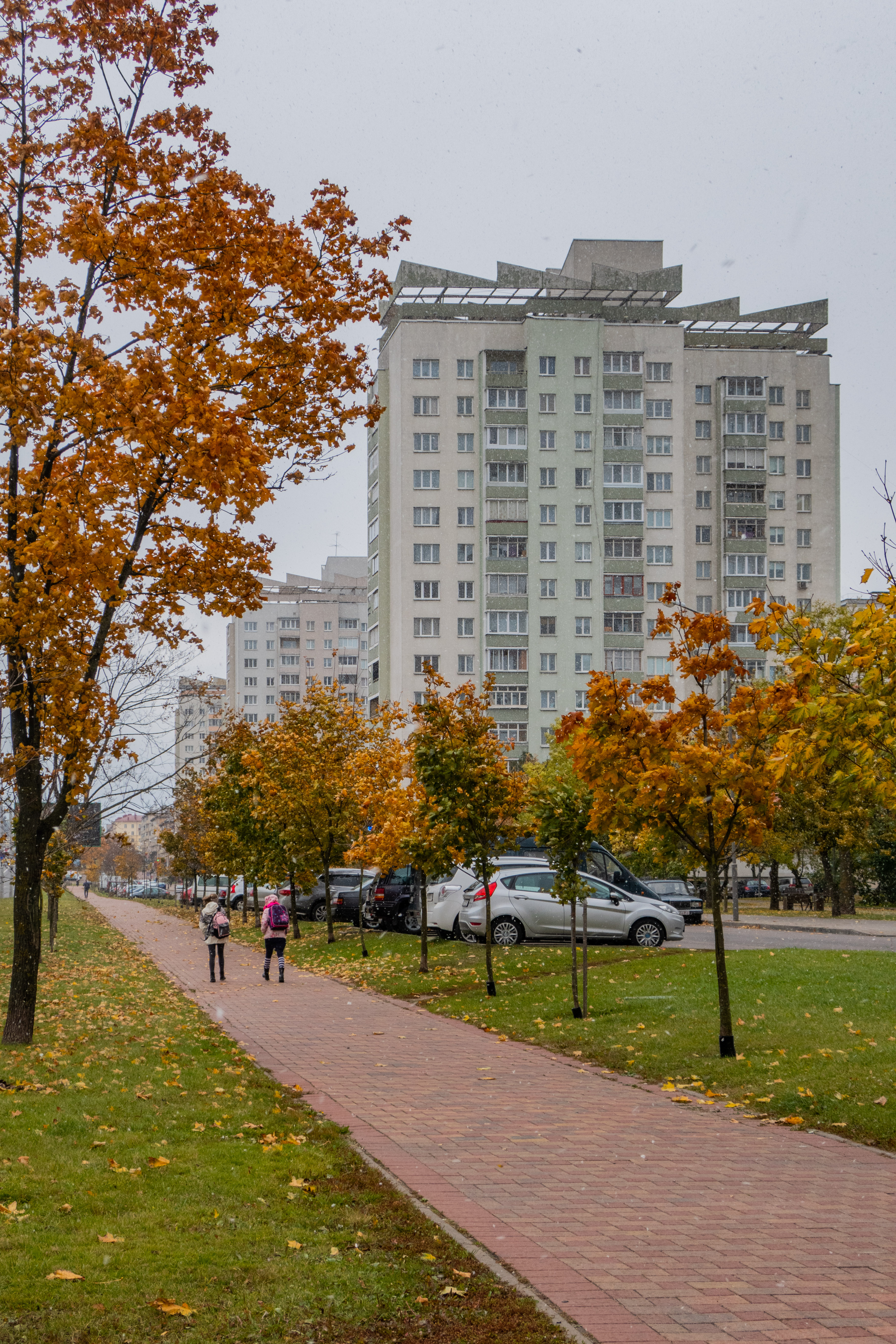 Partyzanski avenue. Minsk, Belarus